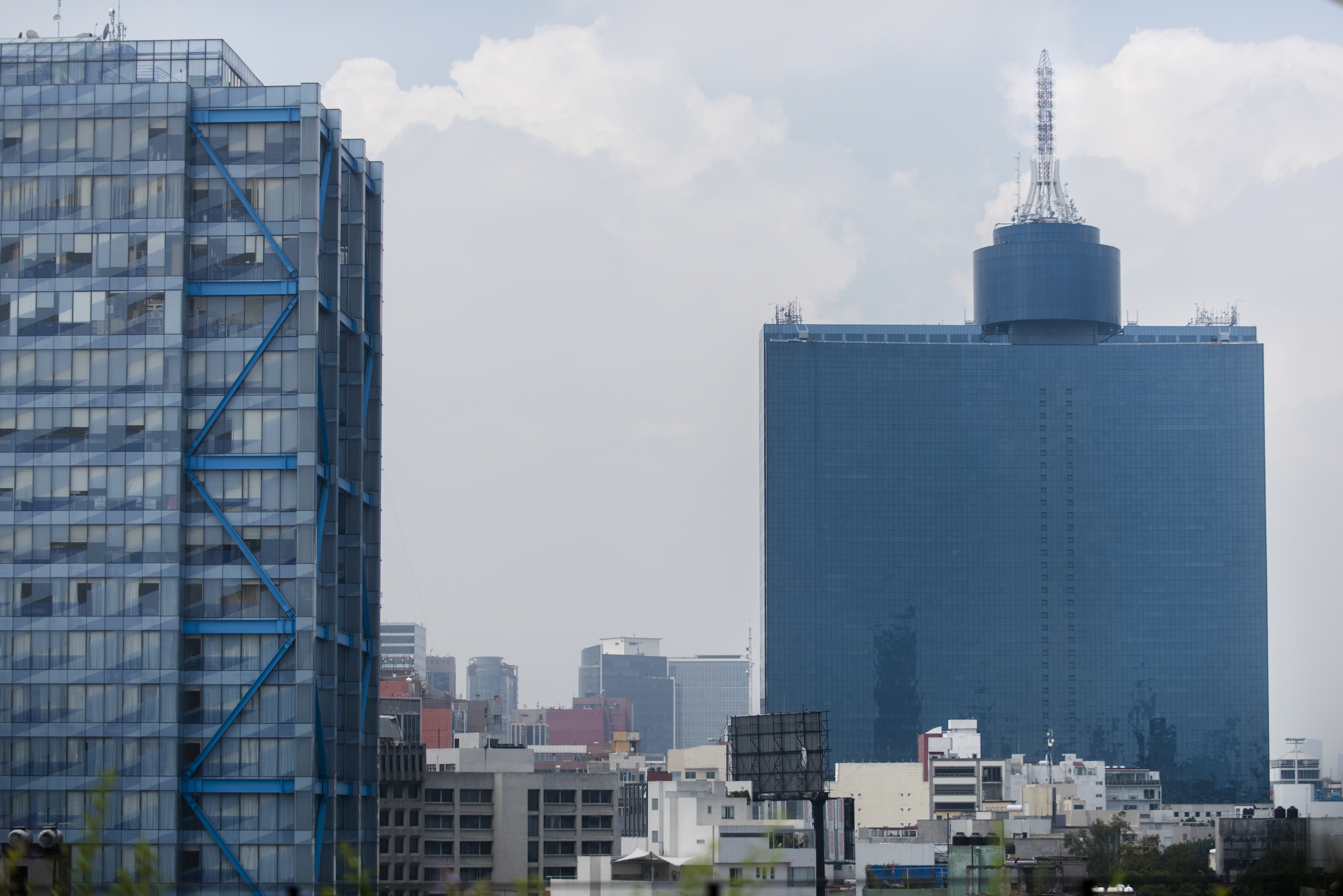 The World Trade Center building in Mexico City in a clear afternoon.